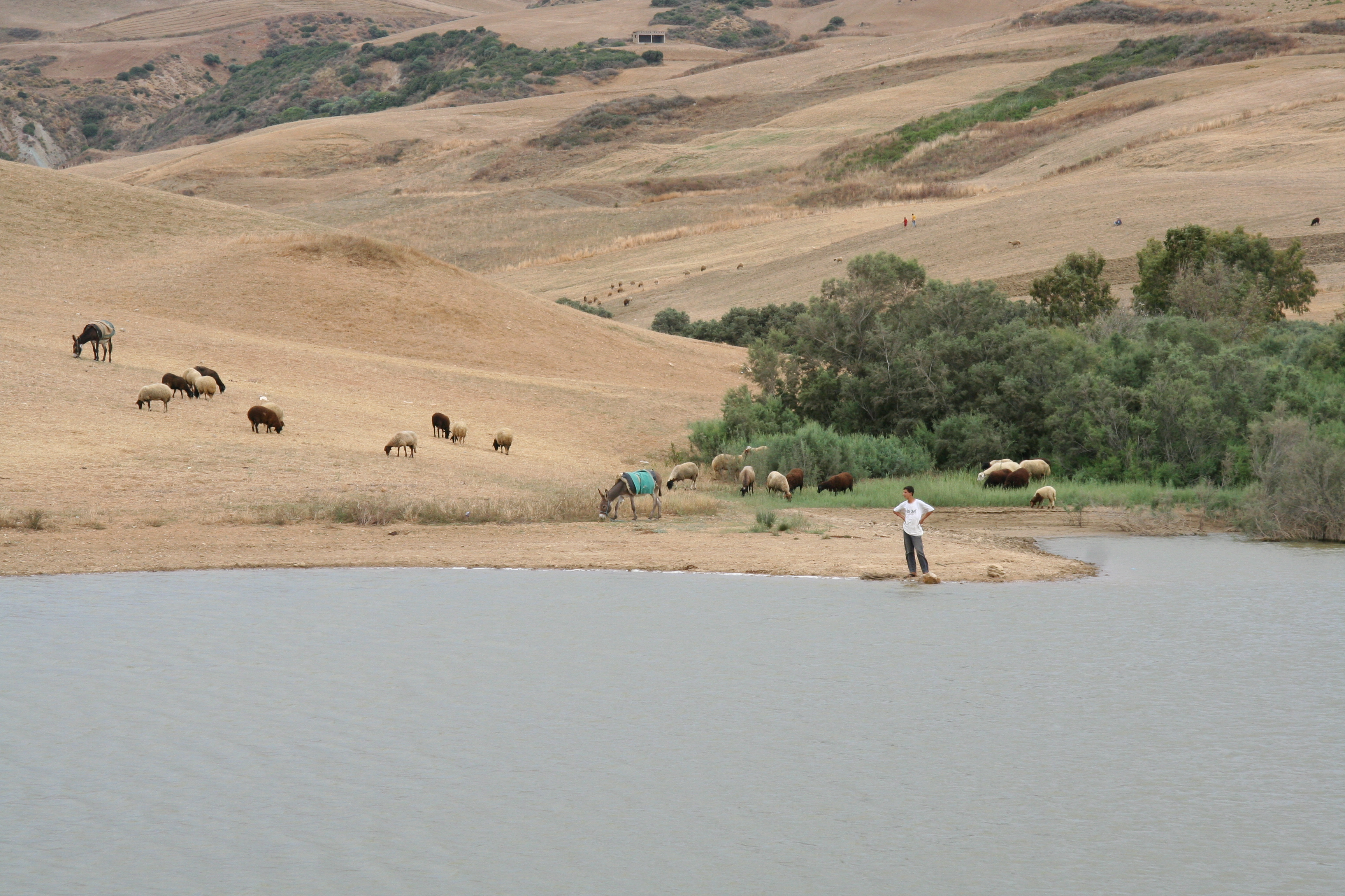 A collection of contemporary photos, dedicated to the people of Tunisia I dedicate this collection of photographs to the people of Tunisia, where I had the great privilege to live, work , explore and photograph between 2002 and 2006. Apart from the natural beauty and climate, what remains deepest in my memory is the warmth and friendship of the people and a national pride driven by the heartbeat of culture and civilisation. I hope that this selection of photos conveys some of that. The importance of Tunisia’s growth as a nation post World War II, and the example it set in gender equality and education are second to none. Tunisia was prepared to challenge and change; it is a beacon to all seeking equality, justice and peace. Nicholas Gosse, 2015